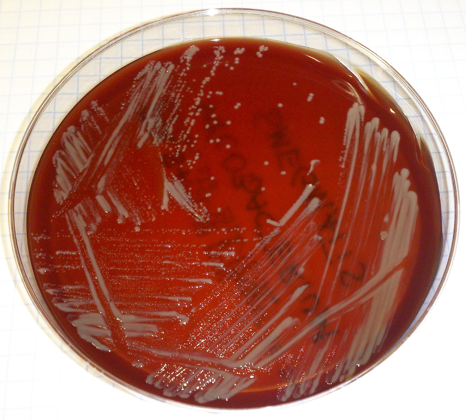 Mycobacterium smegmatis colony on the columbia agar with 5% sheep blood ("blood agar") plate.